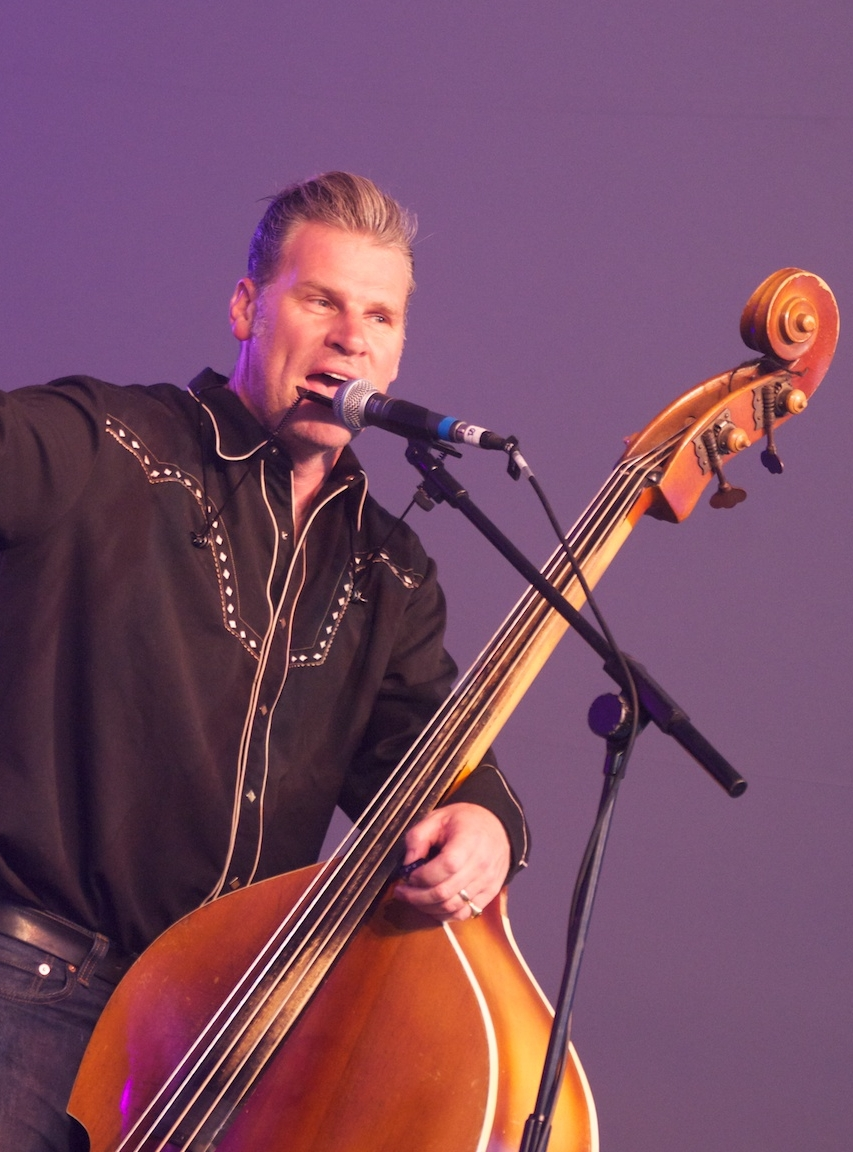 Kermode playing with the Dodge Brothers at the Rhythms of the World festival, 2010.